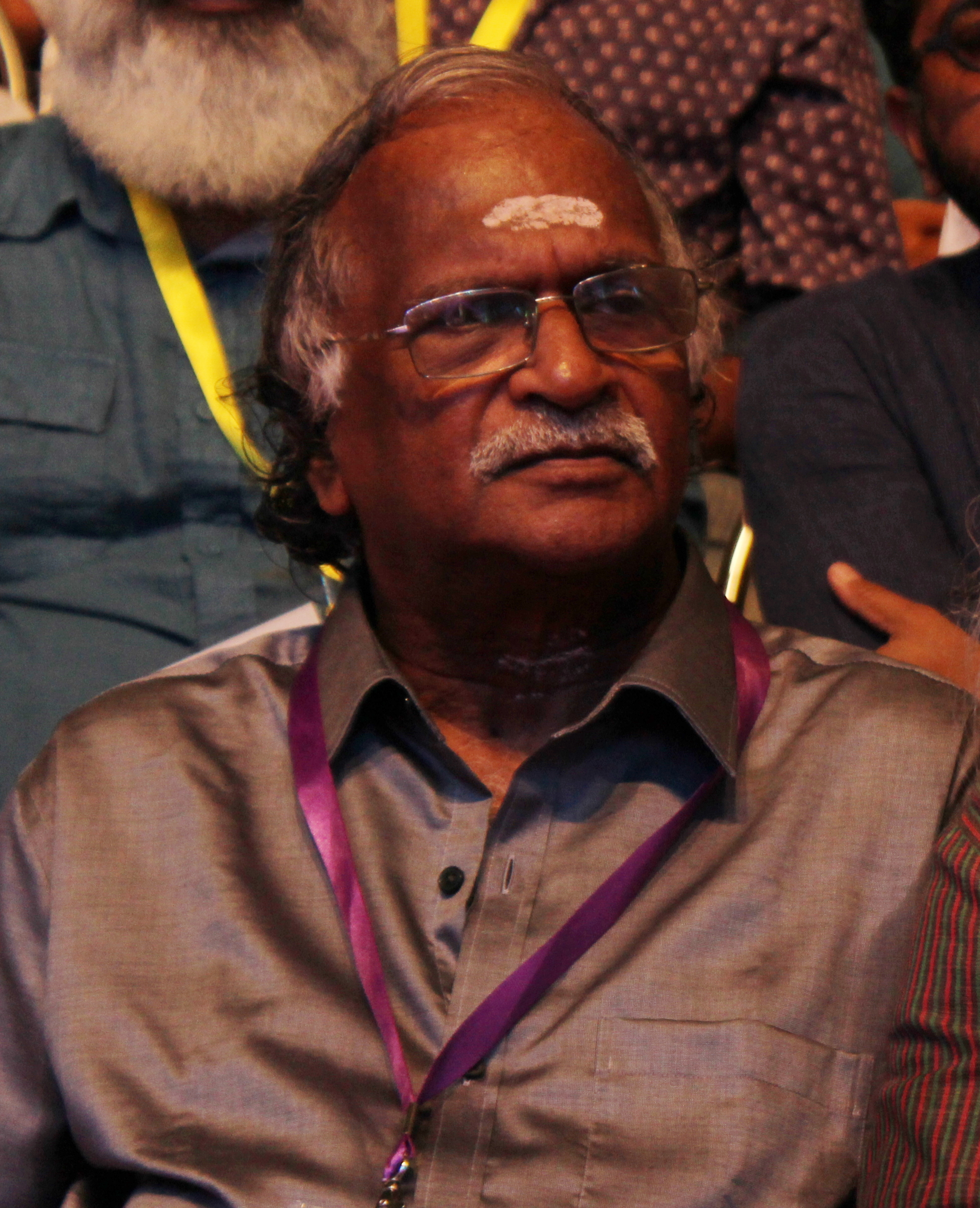 Sreekumaran Thampi and Adoor Gopalakrishnan